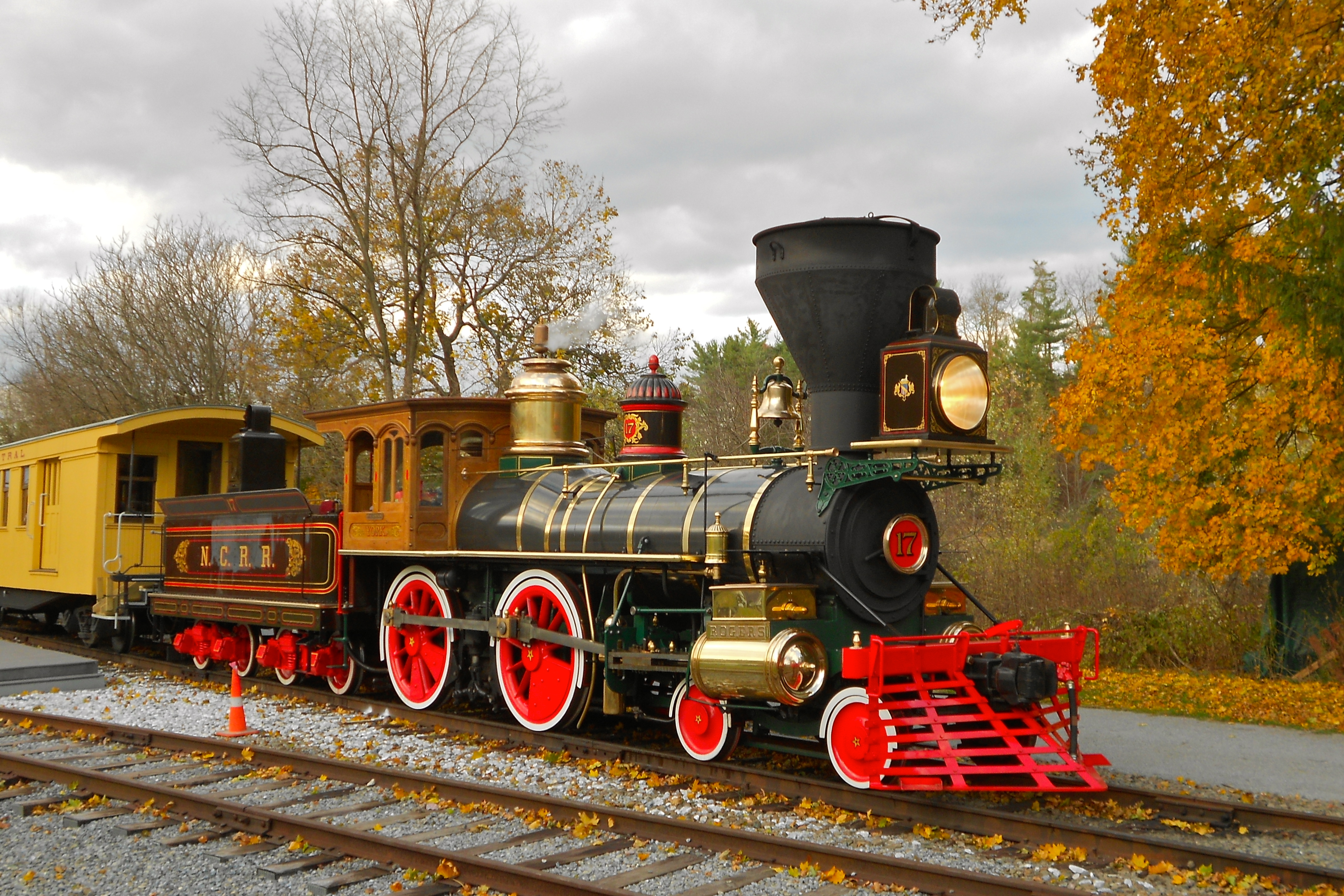 The steam engine "York" a replica of a Civil Ware era steam engine, on the North Central Rail Road (their only regular engine) in Hanover Junction, York County, Pennsylvania. The station (to the left off camera ) is listed on the NRHP. Lincoln stopped here on the way to give the Gettysburg Address.